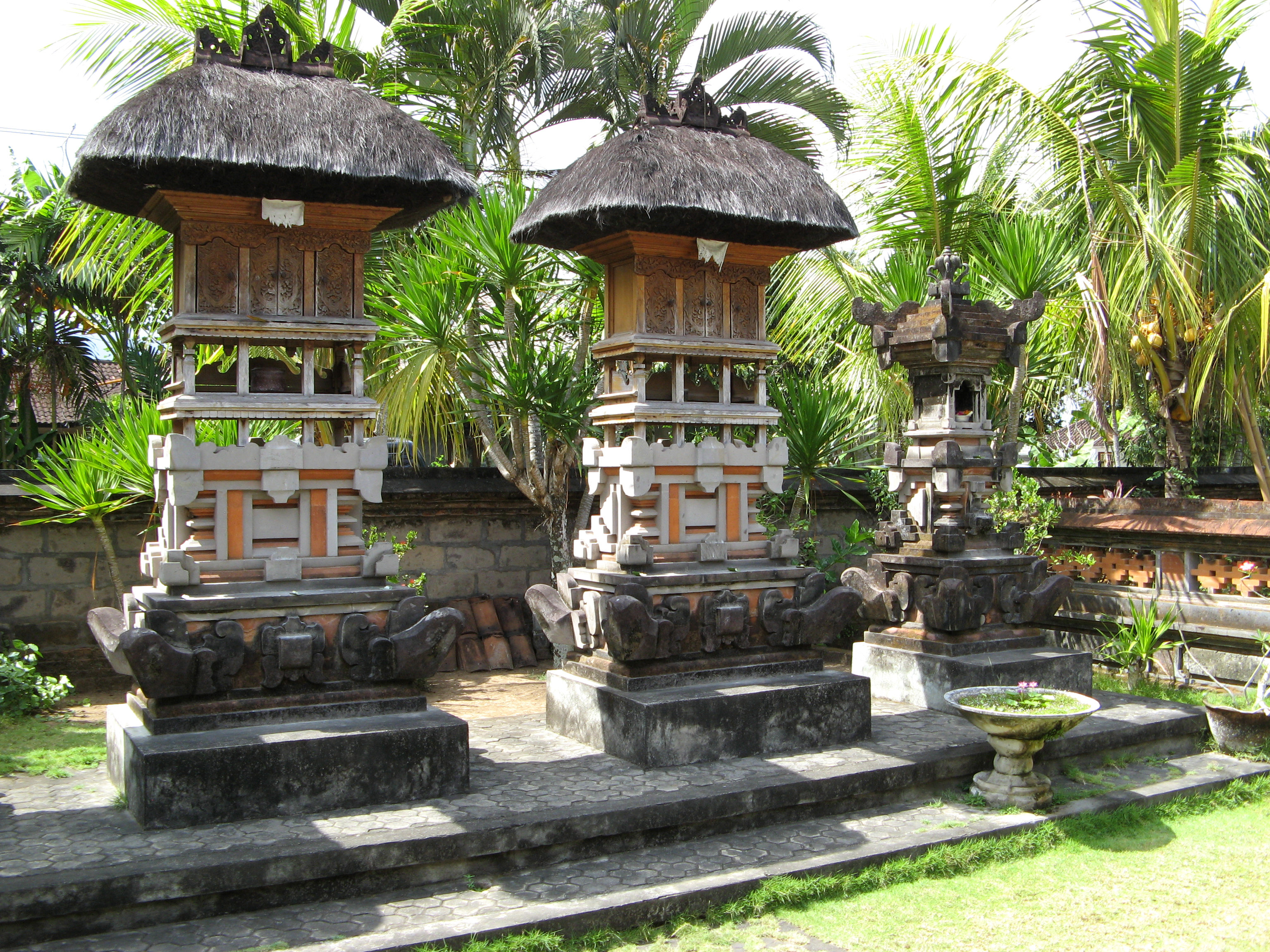 These shrines are dedicated to the genius loci, ancestors, and other household spirits. They belong to an elite traditional house in Bali.